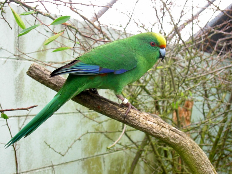 Cyanoramphus malherbi, a "nationally critical" rare endemic bird of New Zealand. This is one of several birds being bred in captivity at Isaac Peacock Springs wildlife refuge. Christchurch, New Zealand (050908#012_2). Photoshop: autocontrast